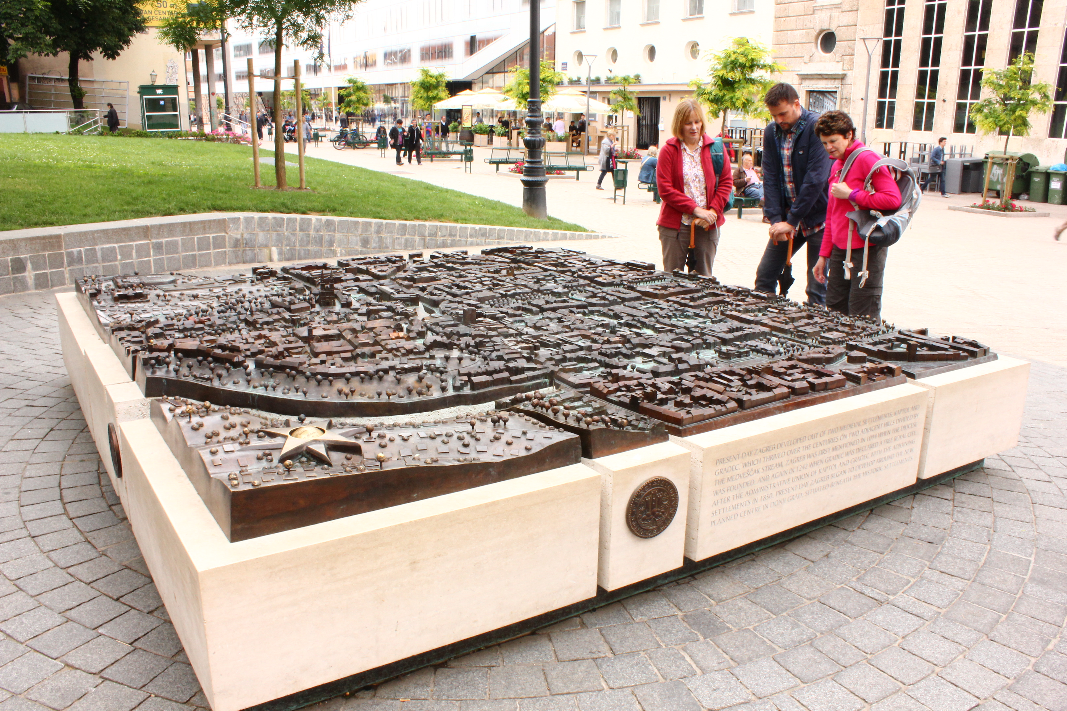 Model City by Damir Mataušić